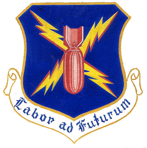 Emblem of the 452d Bombardment Wing approved 8 March 1956